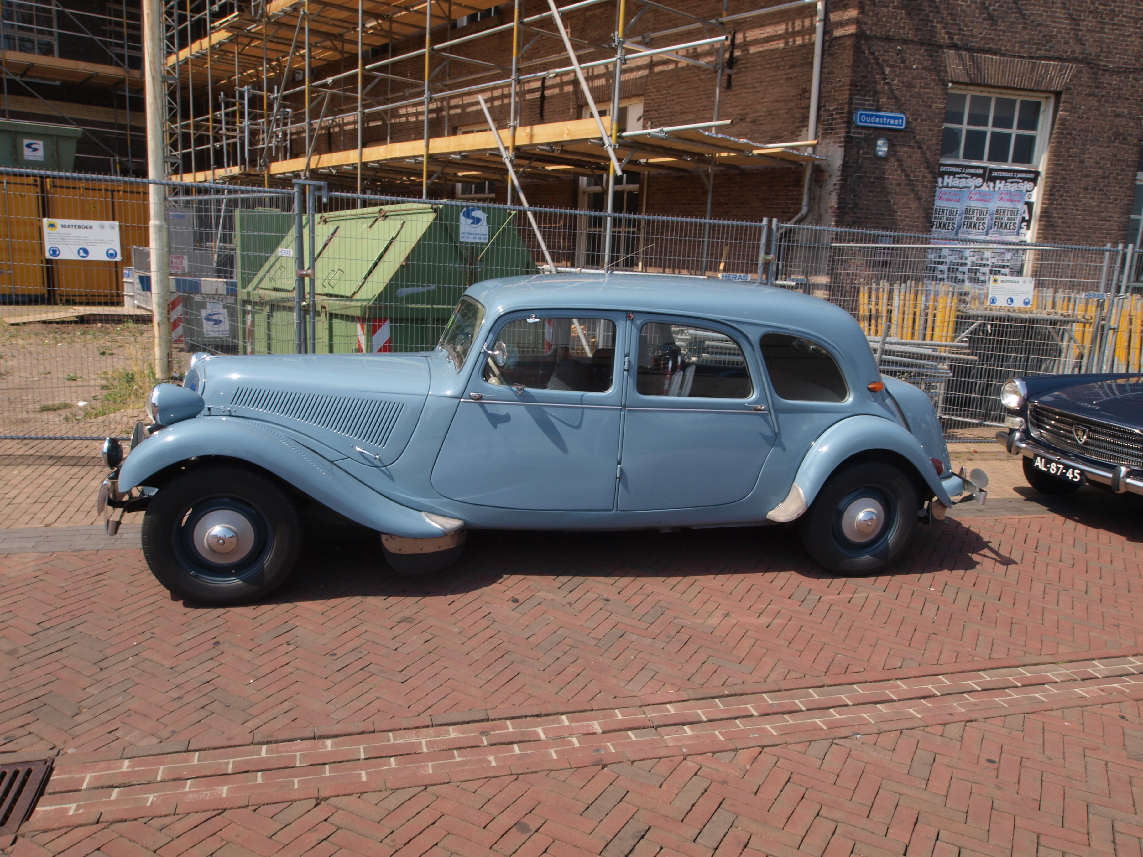 Photographed at Kampen, The Netherlands.